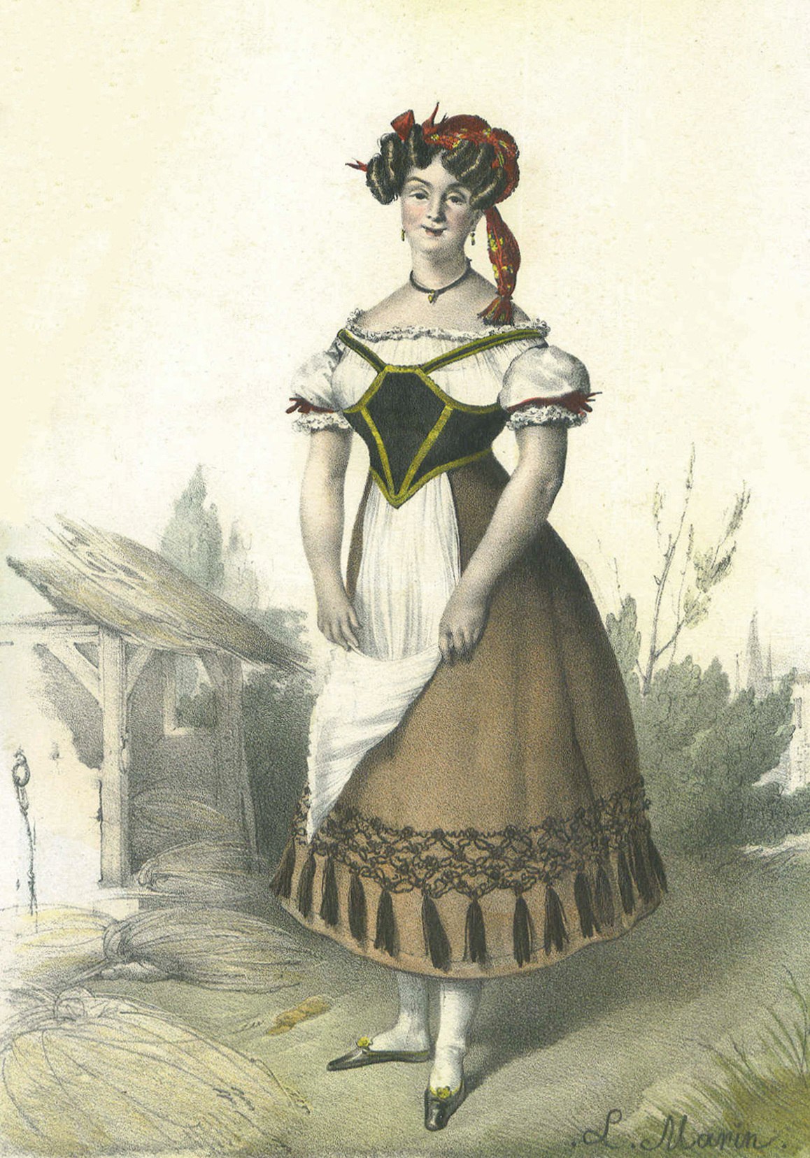 Mrs. Boulanger (Marie Julienne Halligner) (1786-1850)